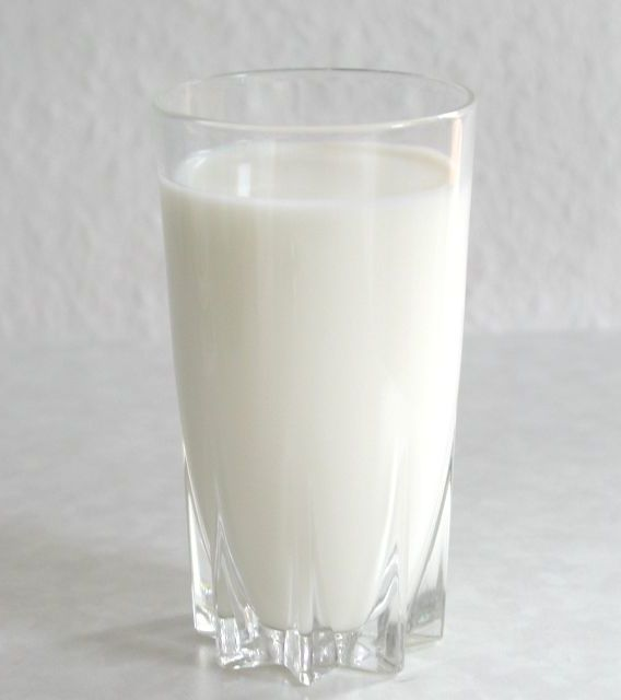 A glass of milk